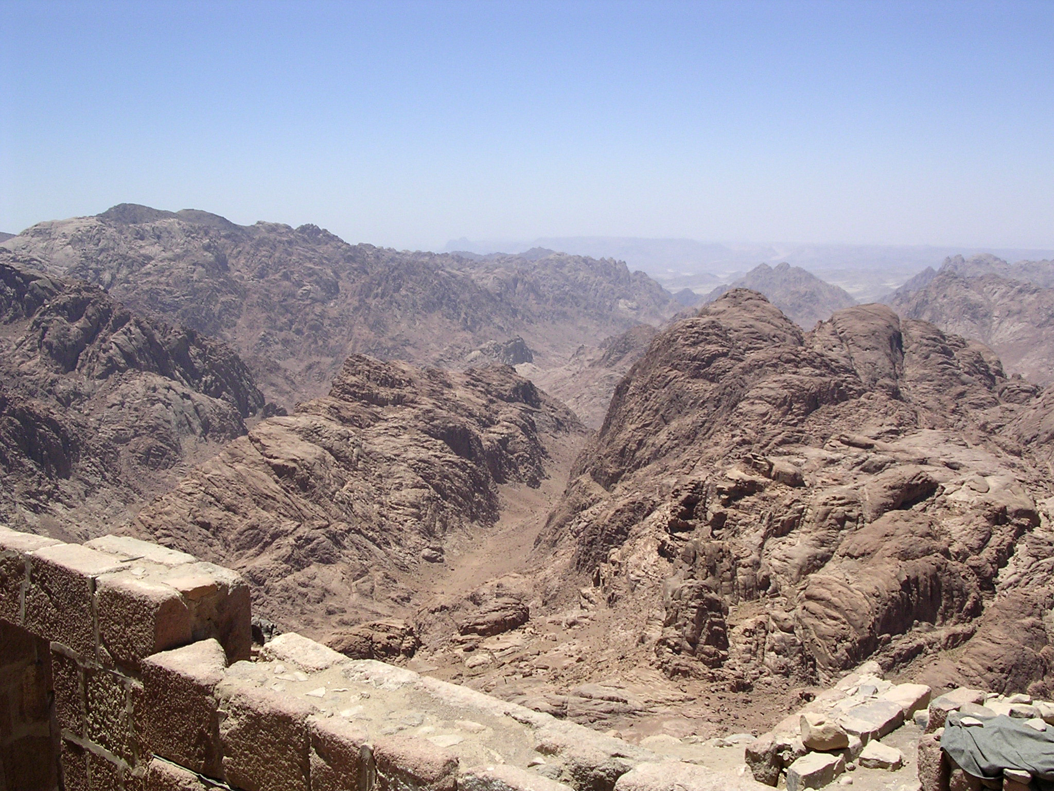 View from Mount Sinai, Egypt.